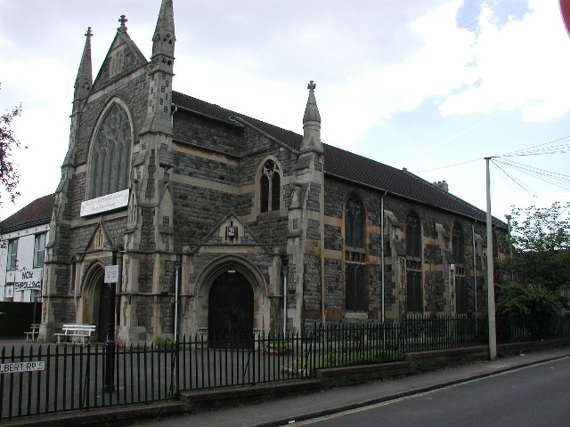 This is the former Wesleyan Methodist Church in Redfield. It faces Church Road and is still in use as a place of worship but for members of the Hindu faith. More information on